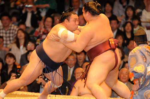 Sumo fighter Chiyotaikai in action during May 2008 Grand Tournament Ryogoku Tokyo